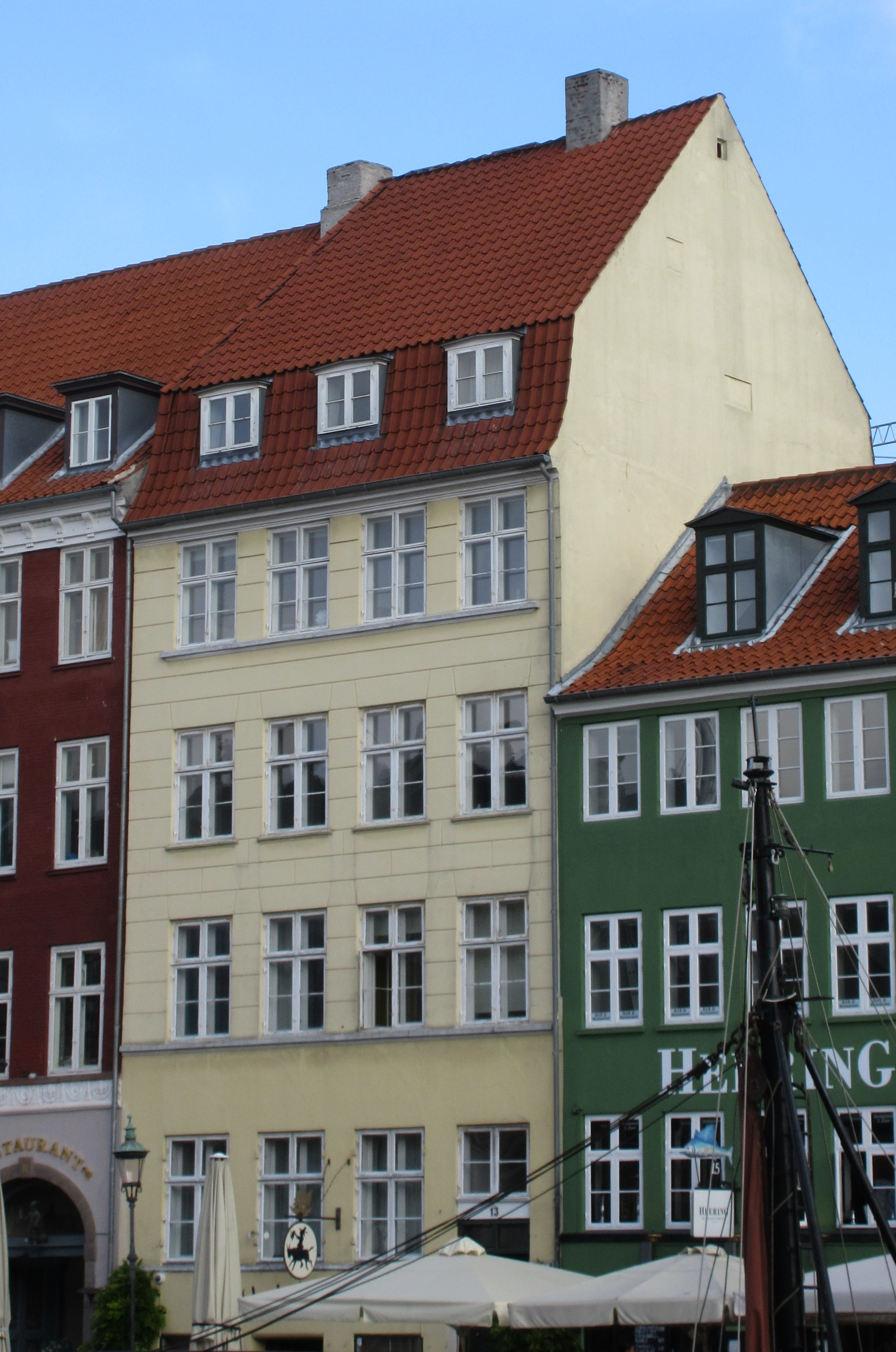 Nyhavn 13 in Copenhagen, Denmark